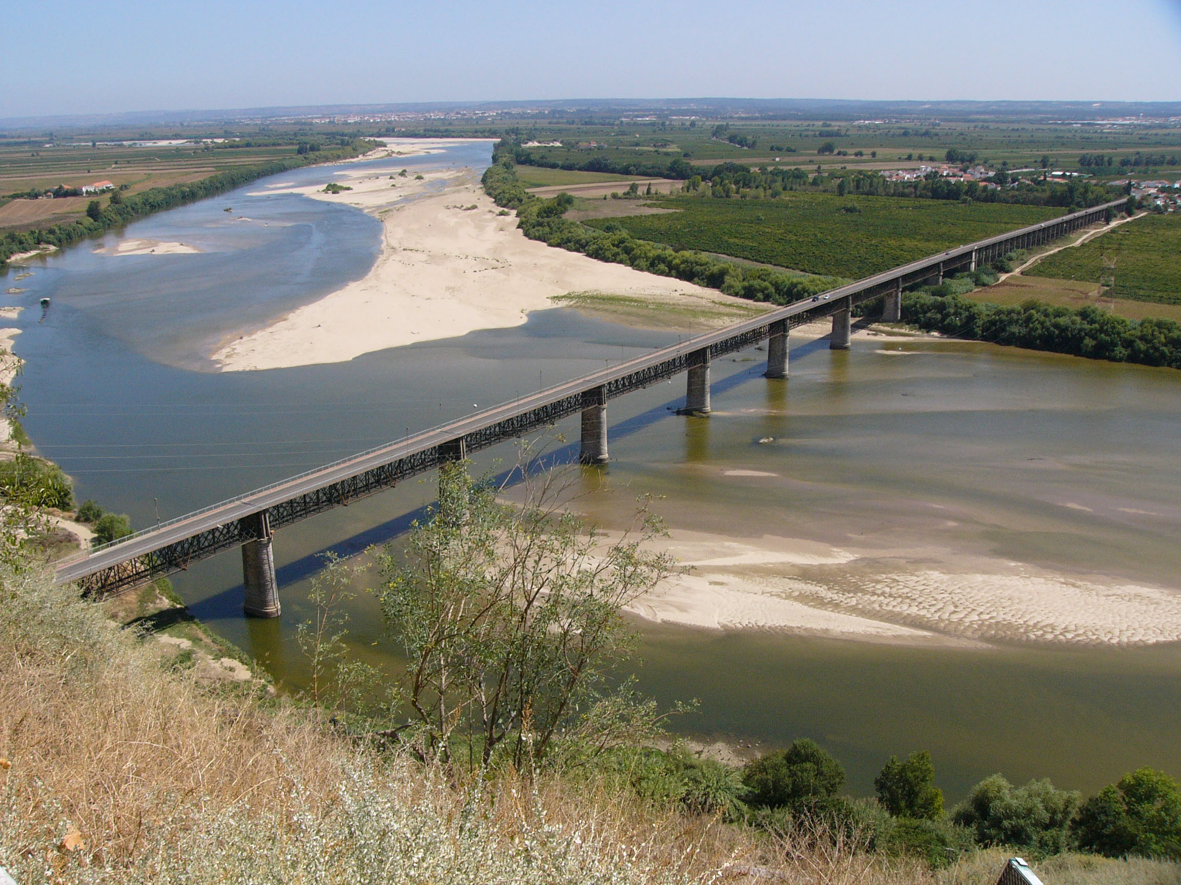 Tejo river seen from Santarém, Portugal